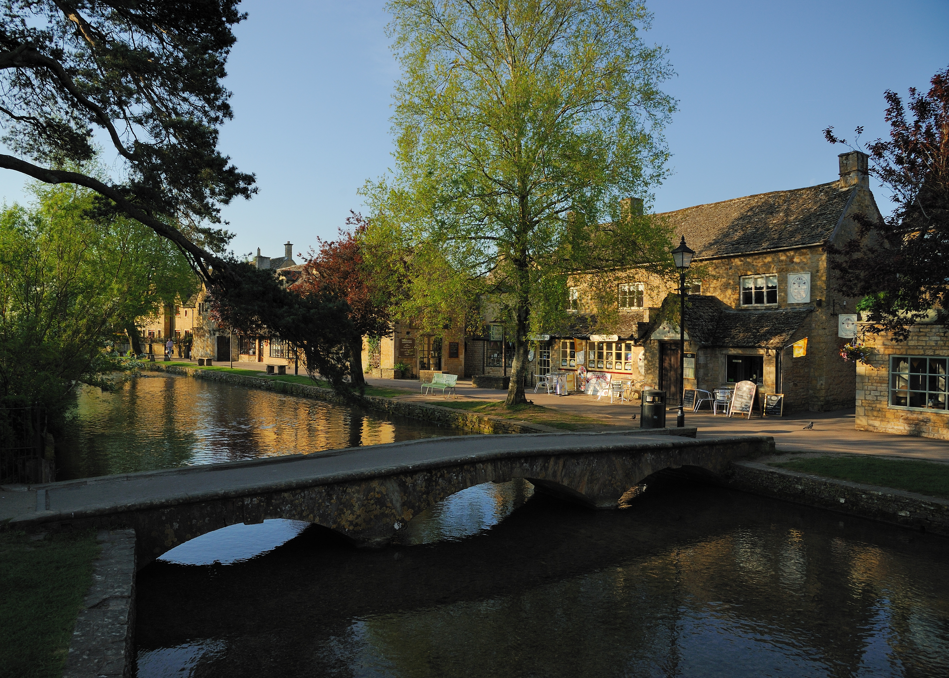 Footbridge over the River Windrush at the Cotswolds village of Bourton-on-the-Water.